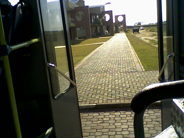 University of São Paulo at São Carlos (Campus2). Photo taken inside the Campus1 Campus2 circular bus.